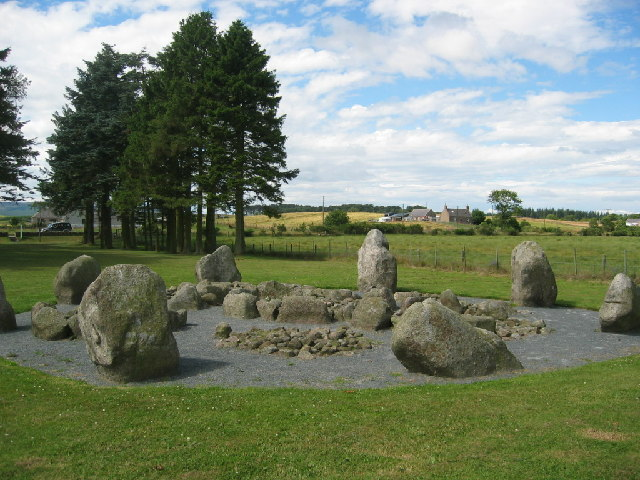 Cullerlie Stone Circle. A popular tourist attraction.